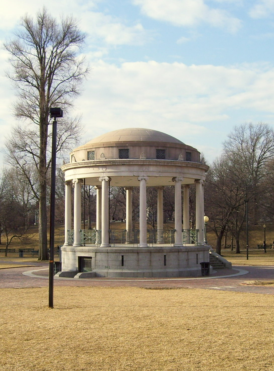 The Parkman Bandstand — on Boston Common, Massachusetts. Memorial funded by the bequest of George Francis Parkman (d. 1908), and completed in 1912. Photo: March 2007.